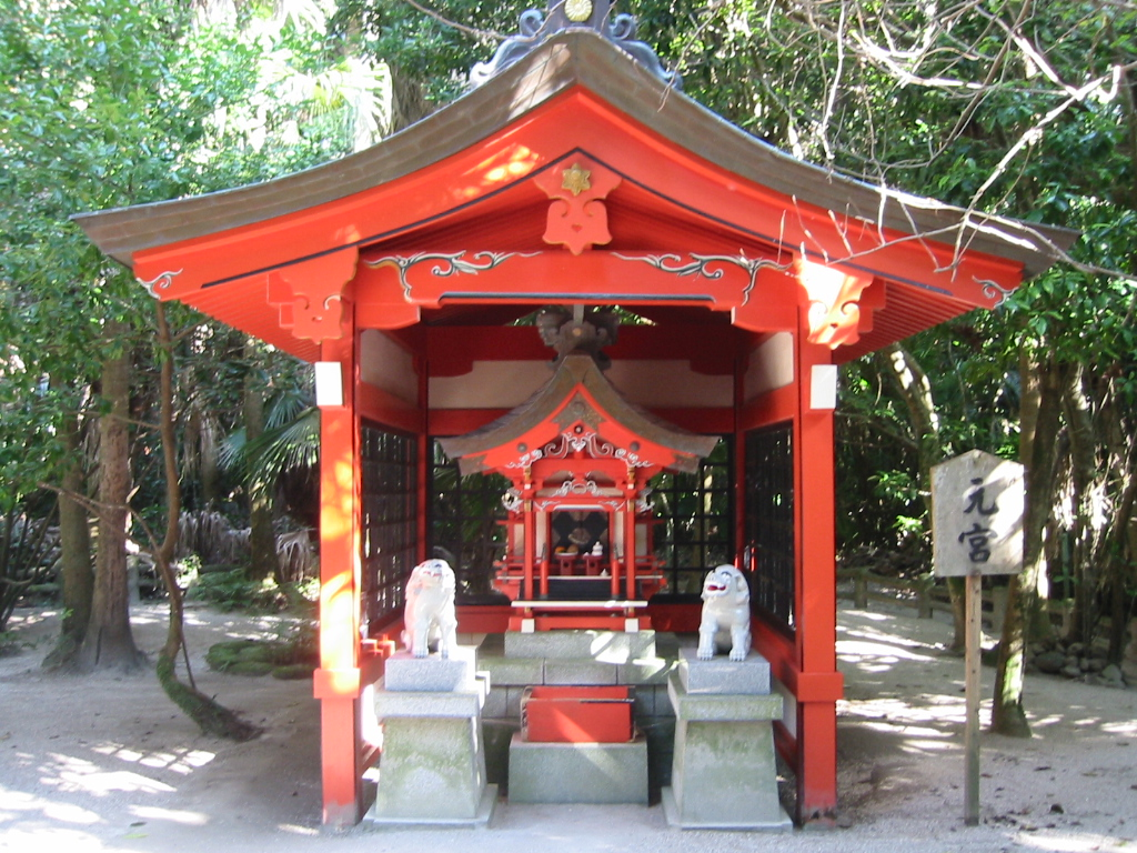 Aoshima shrine